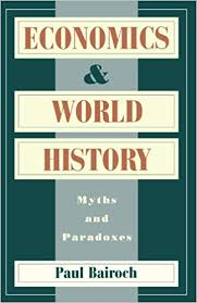 Economics & world history, Paul Bairoch